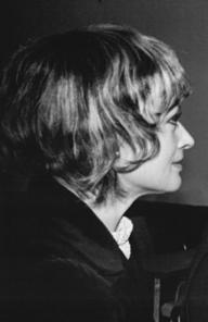 Czech actress Jana Brejchová in Berlin